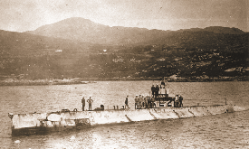 USS L-2 (SS-41) at Bantry Bay, Ireland